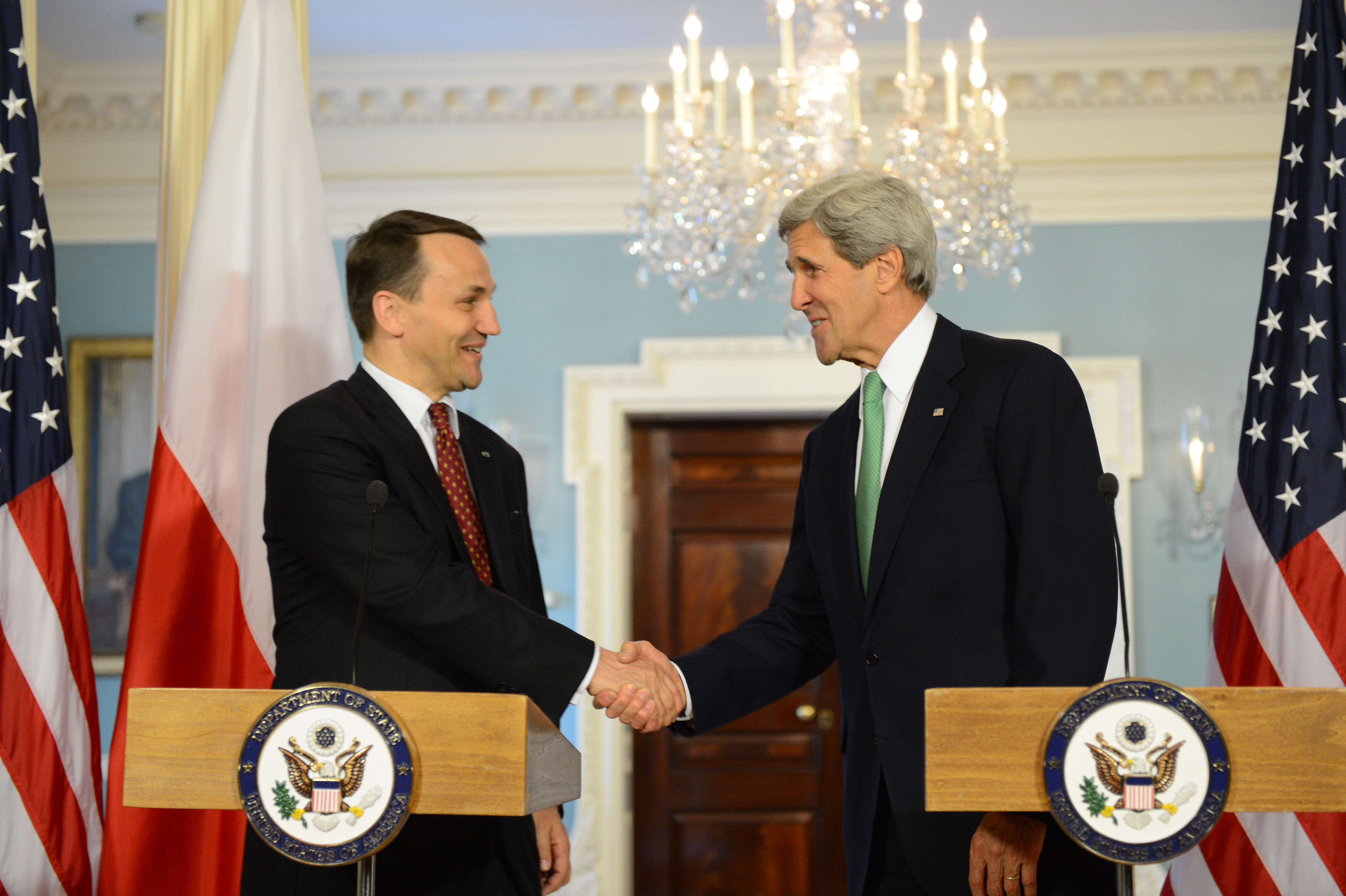 U.S. Secretary of State John Kerry delivers remarks with Polish Foreign Minister Radoslaw Sikorski at the U.S. Department of State in Washington, DC, June 3, 2013. [State Department photo/ Public Domain]